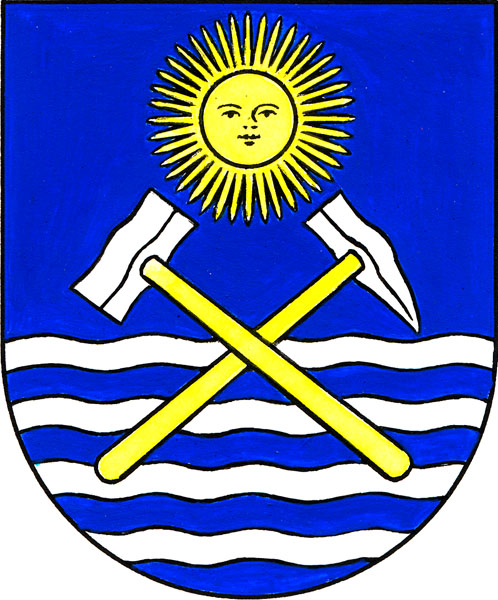 Coat of amrs of Milešov , District Příbram, Czech Republic